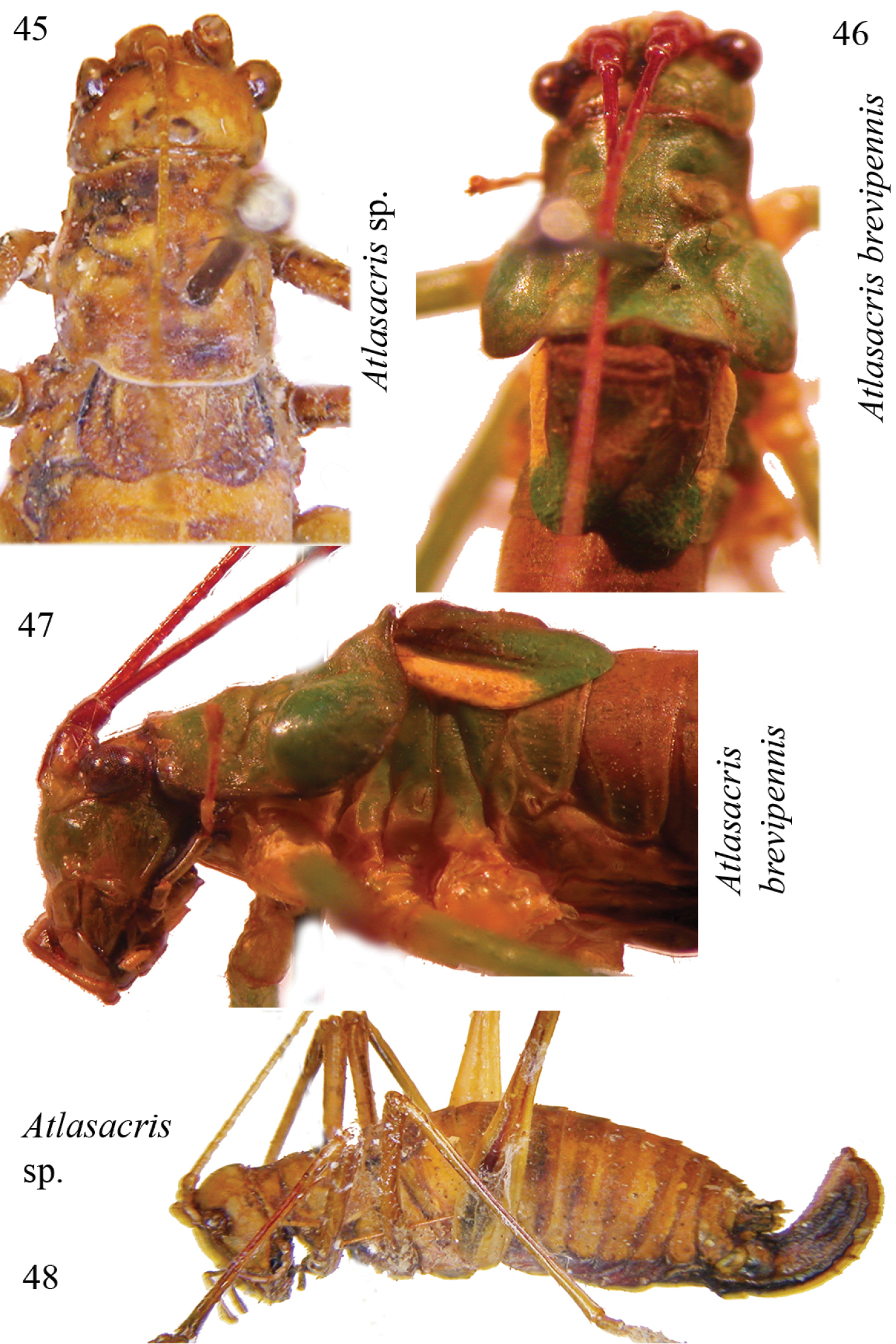 Genus Atlasacris. Dorsal view of the female of Atlasacris sp. from the Democratic Republic of Congo (45), and of the male of Atlasacris brevipennis sp. n. (46); lateral view of head, pronotum and tegmina of the male of Atlasacris brevipennis sp. n. (47); lateral view of the female of Atlasacris sp. (48).